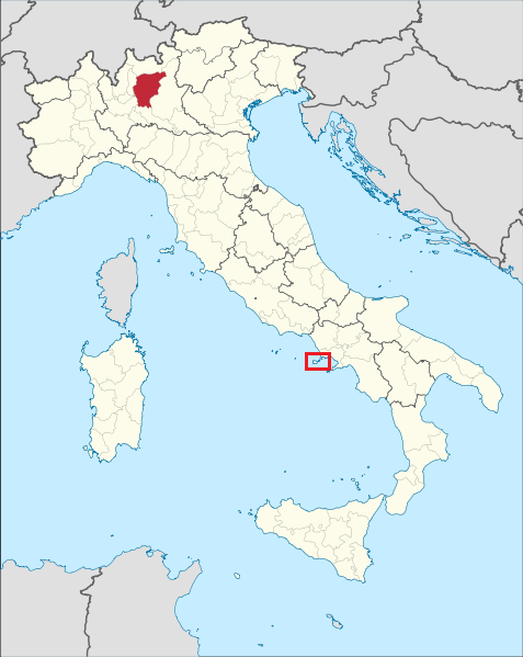 Derivative of Commons File:Bergamo in Italy.svg with red box added to highlight the Campania islands of Ischia and Procida where Forastera is grown as well as its historical connection to the Lombardy province of Bergamo.